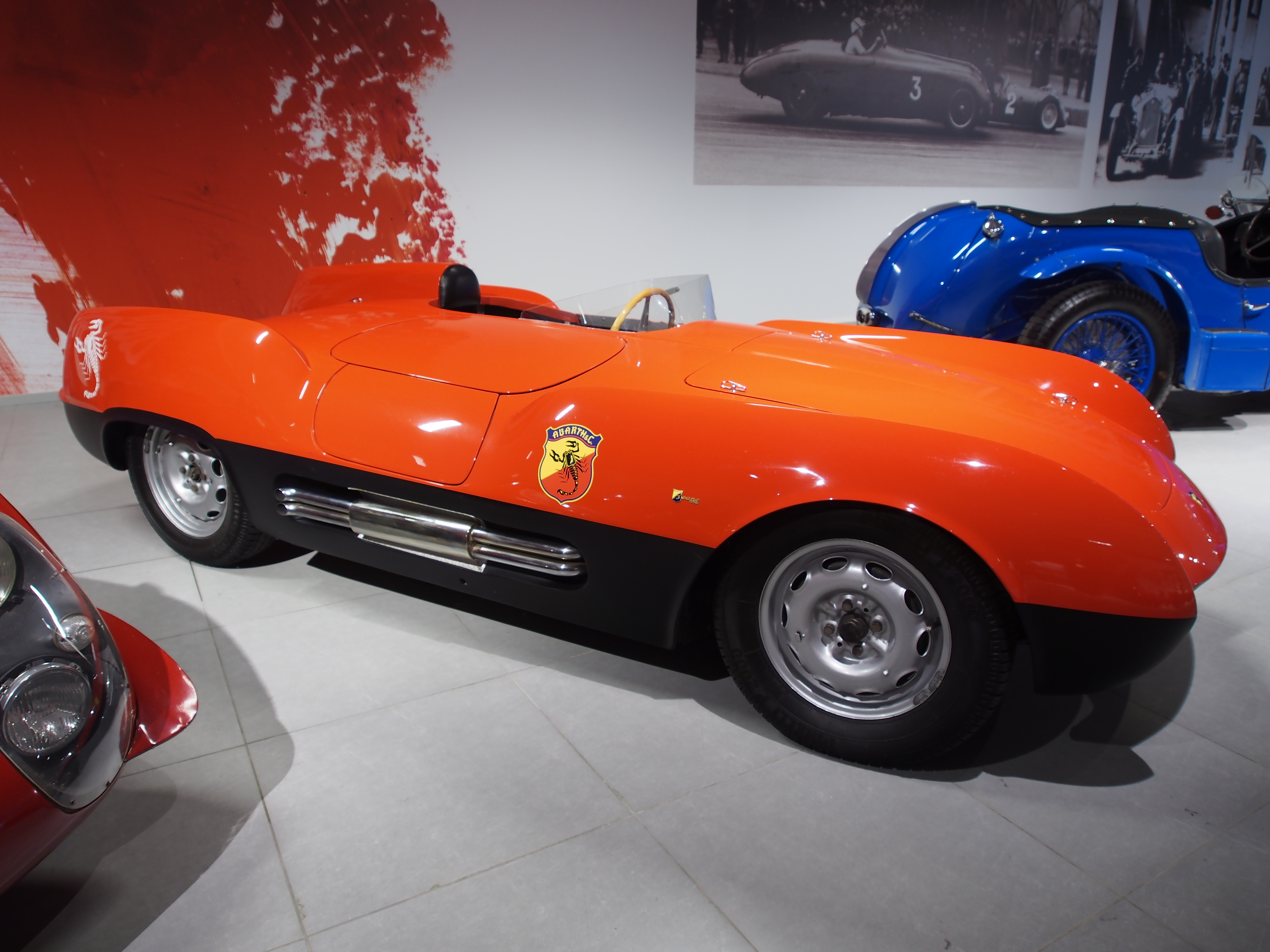 1955 Abarth 207 A Spdier Corsa Boano in the Louwman Museum.